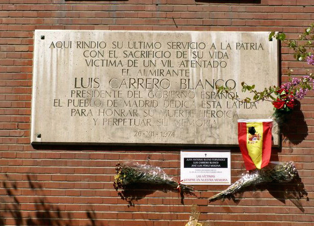 Plaque in Madrid, Spain, commemorating the 1st anniversary of the death of Luis Carrero Blanco, prime minister of Spain during the dictatorship of the Caudillo Francisco Franco, who was killed by car bomb organized by the independentist paramilitars of the ETA. The plaque is in Calle Claudio Coello, on the facade of the church of St. Francis Borgia